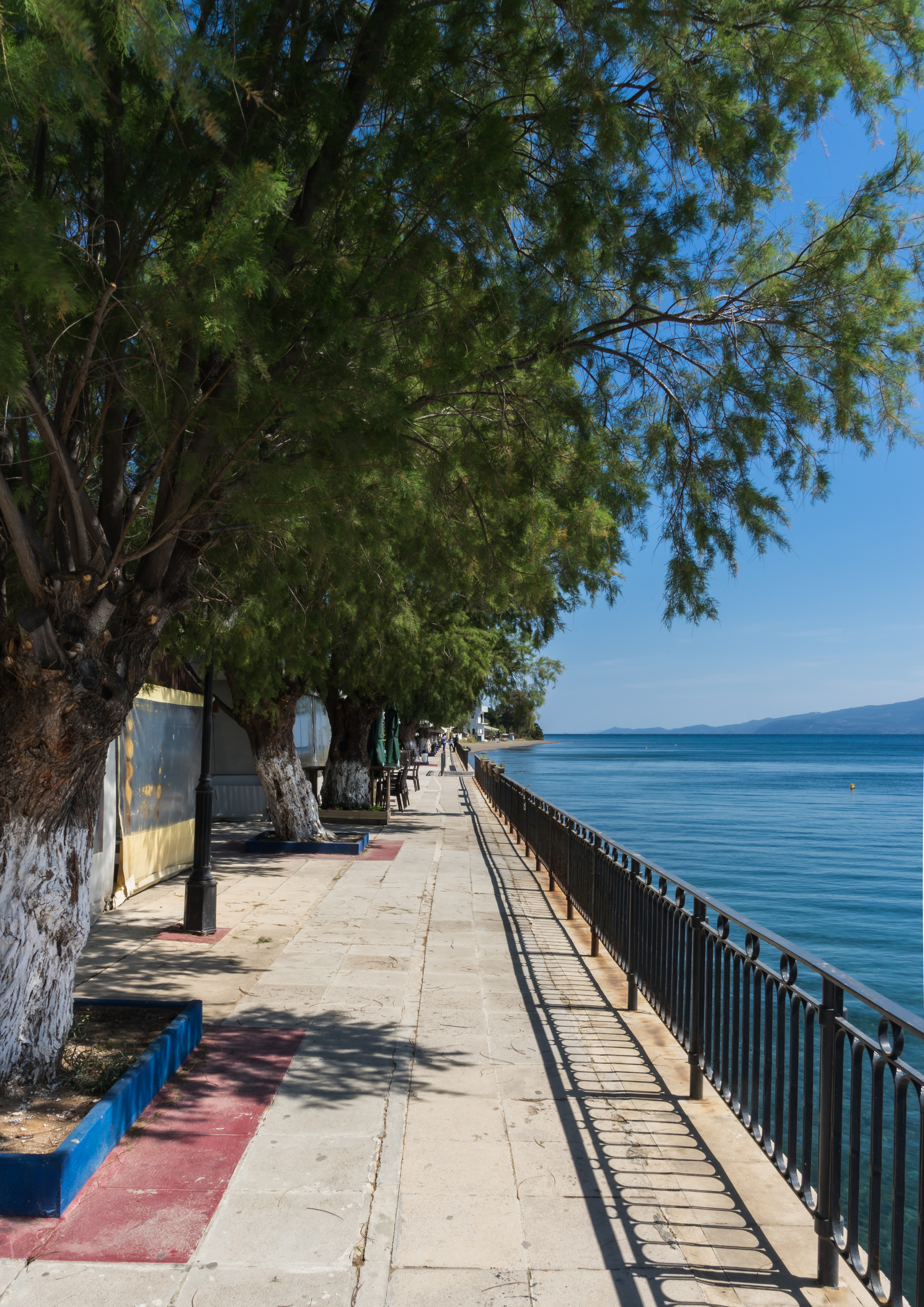 Promenade by the sea in Amarynthos, Euboea, Greece.